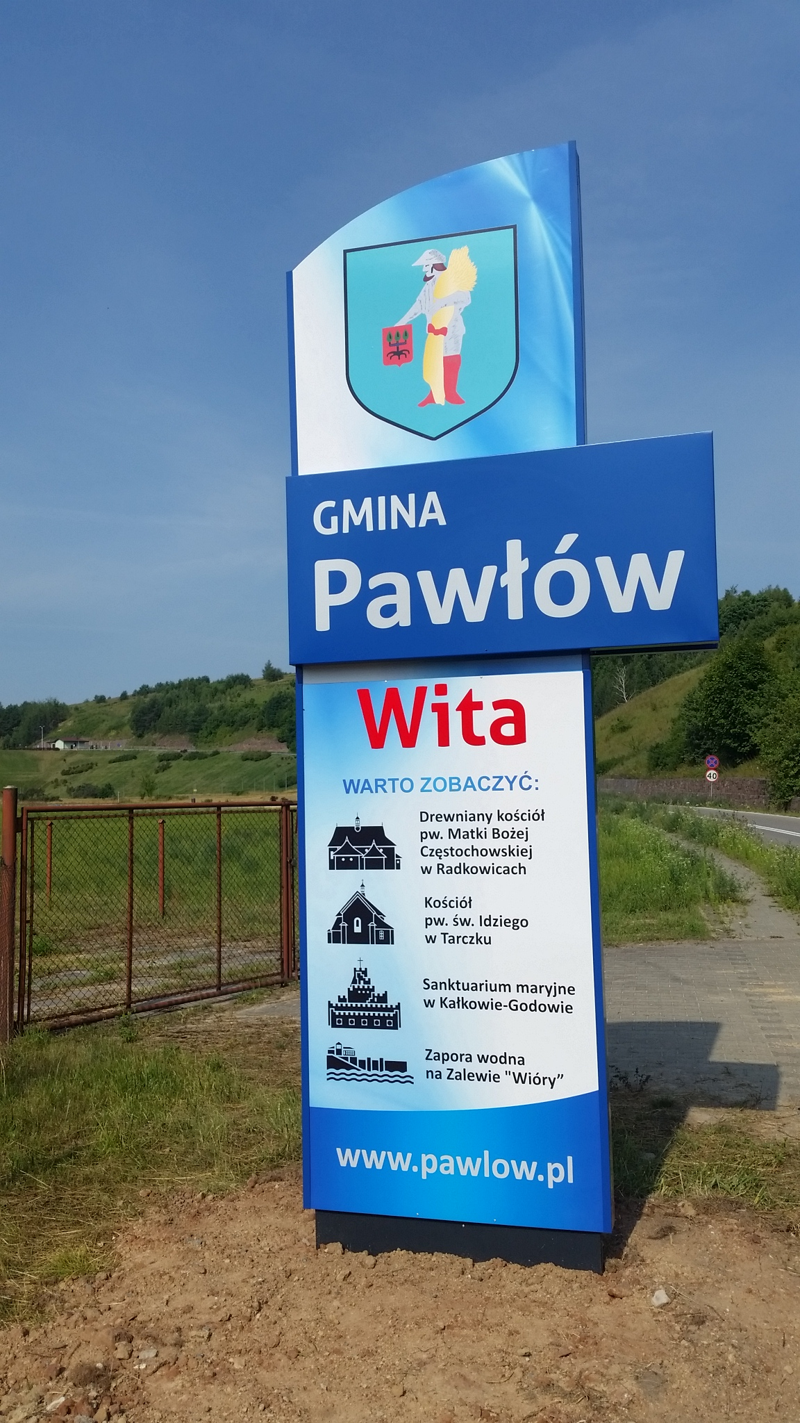 Welcome sign near the dam "Wióry"